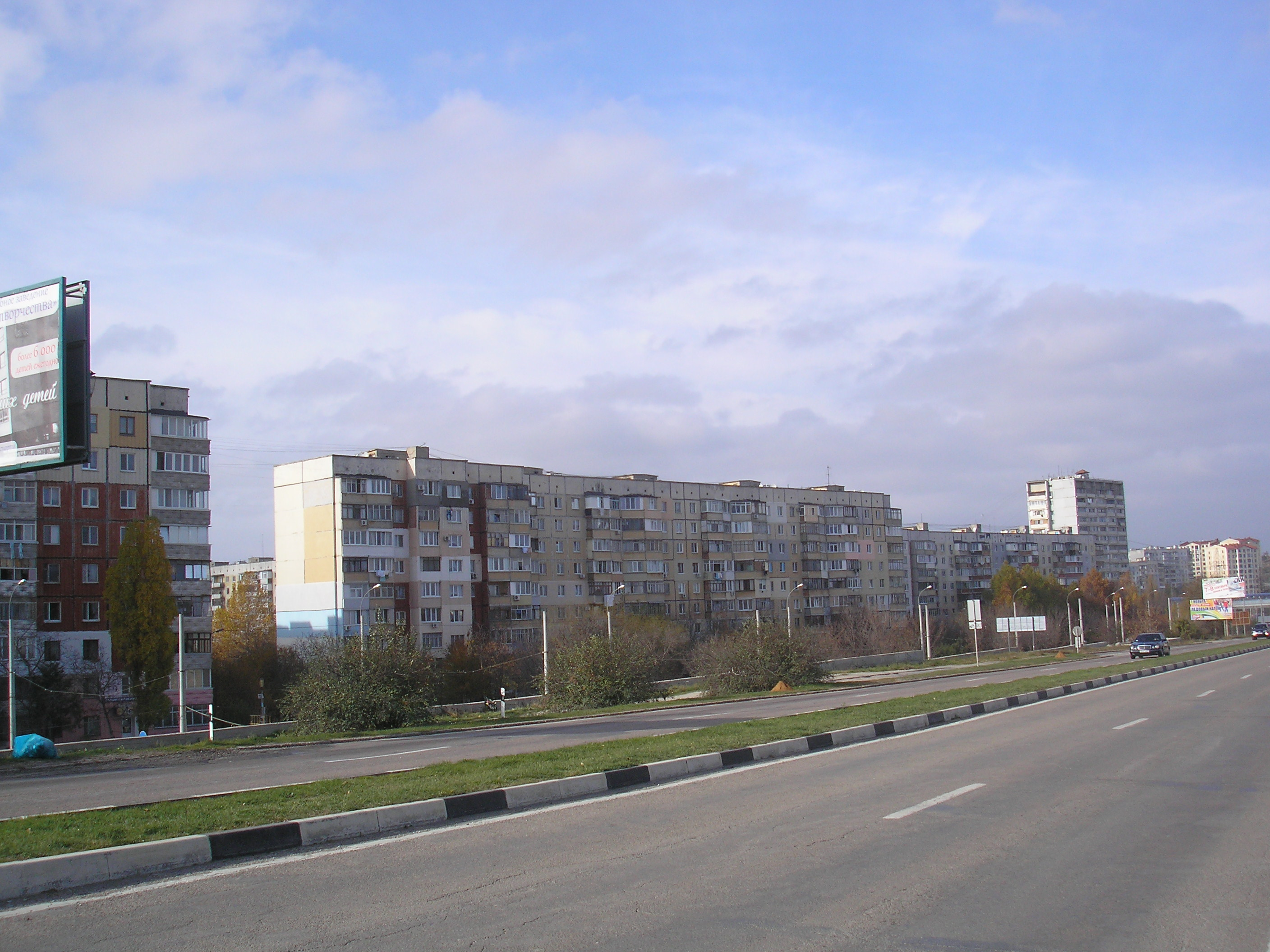 Zagrodniy micro district (former village), Simferopol, Crimea.